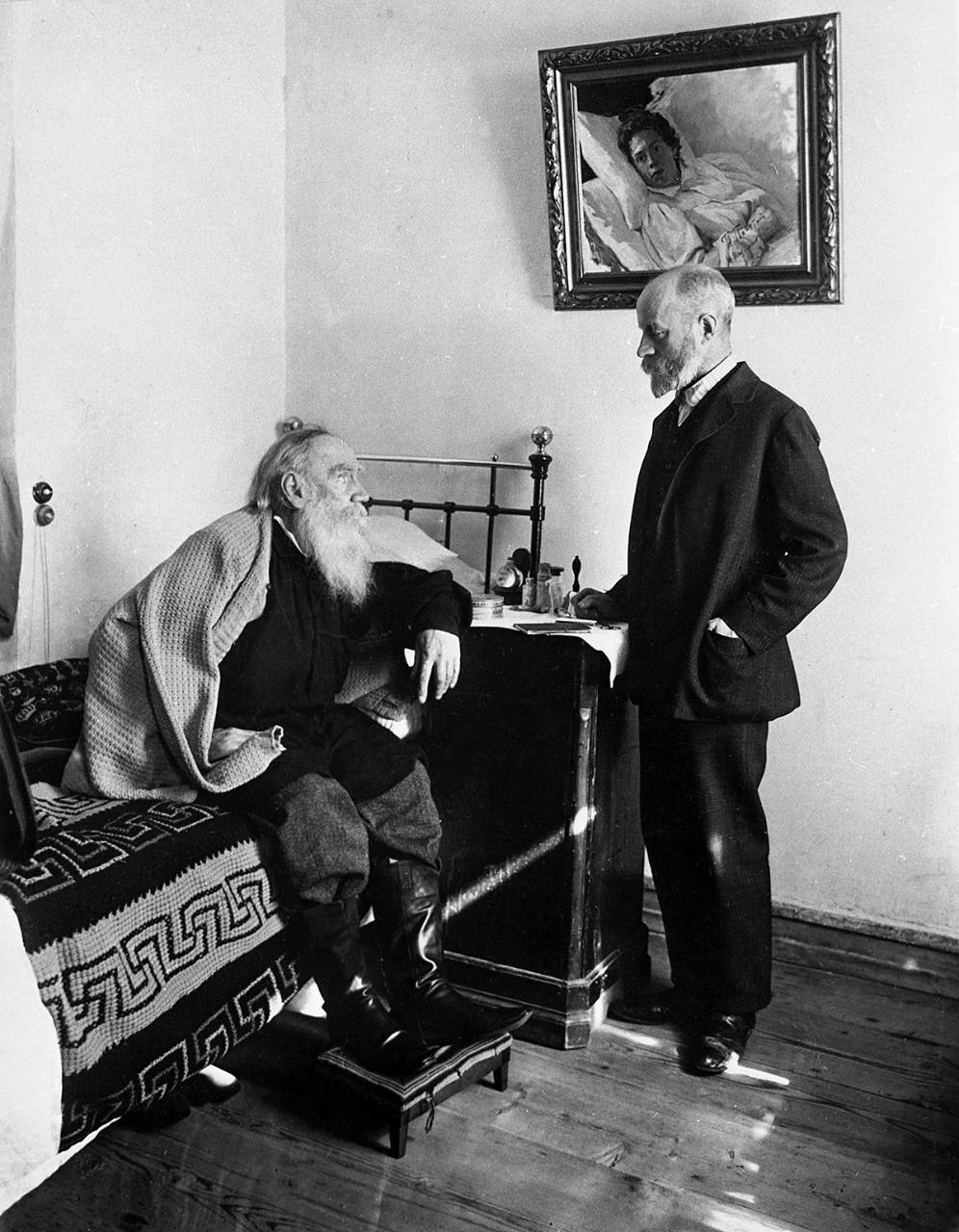 Leo Tolstoy and Dushan Makovitsky